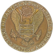 US Dept of Commerce Bronze Medal